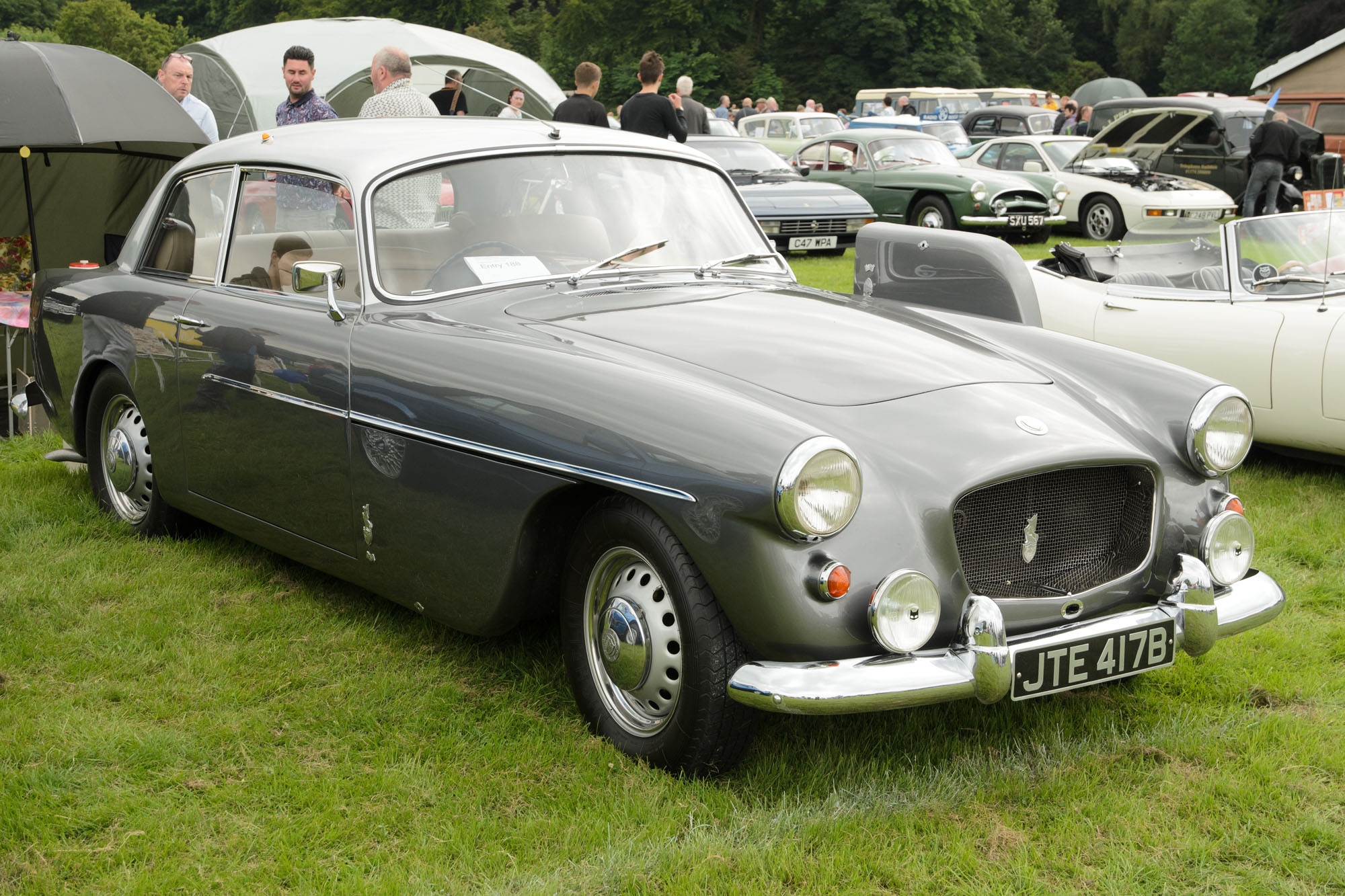 Burnley Classic Car Show 26/06/2016